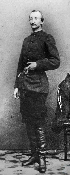 Artur Grottger (1837-1867) photo